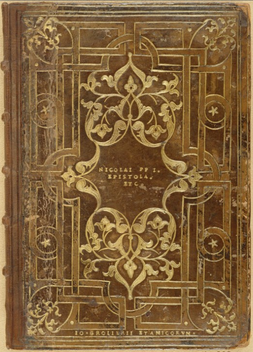 A binding made for Grolier (Milano BNB)